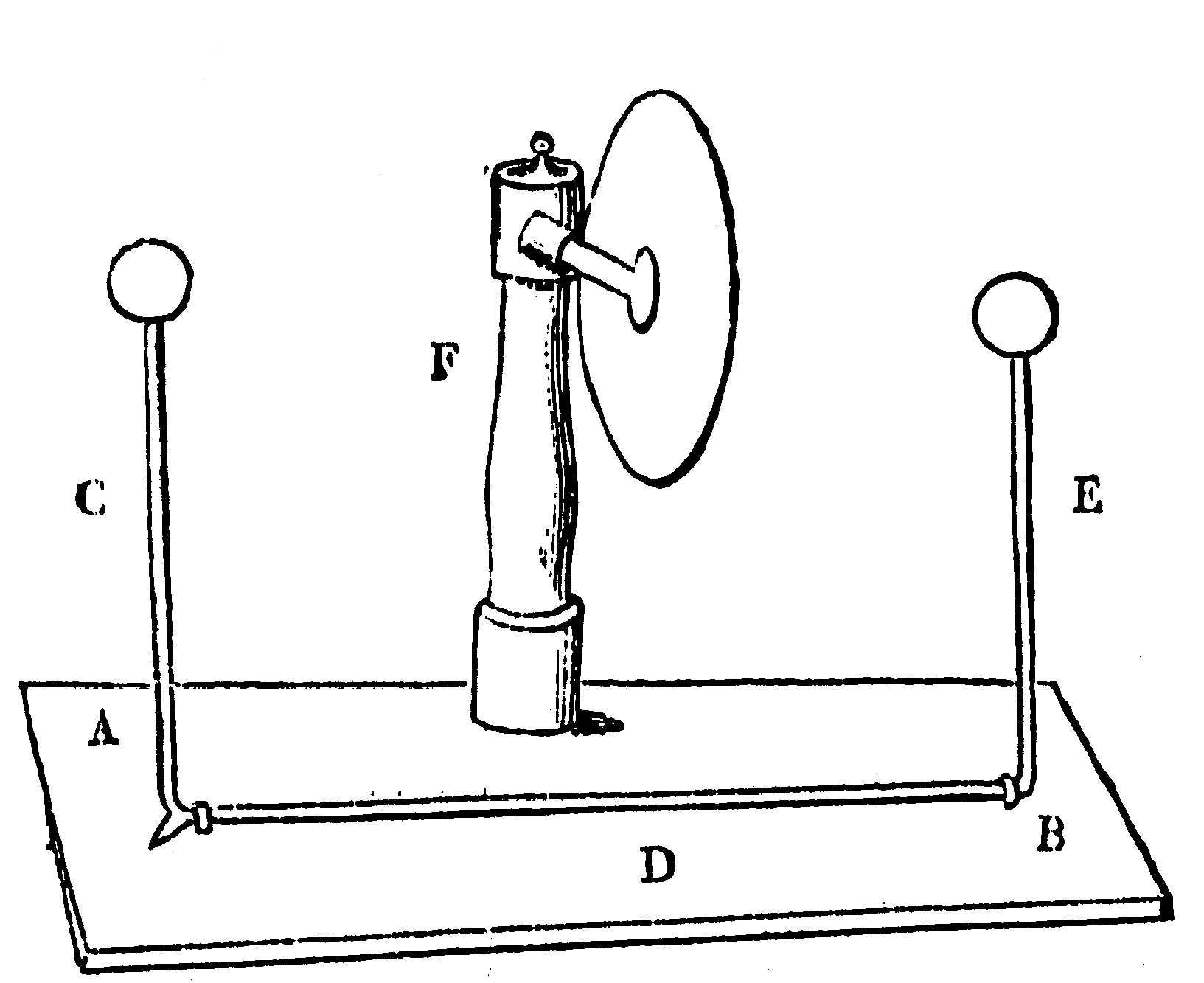 Original sketch of Rumford's thermoscope from his "Mémoire sur la chaleur", 1805.